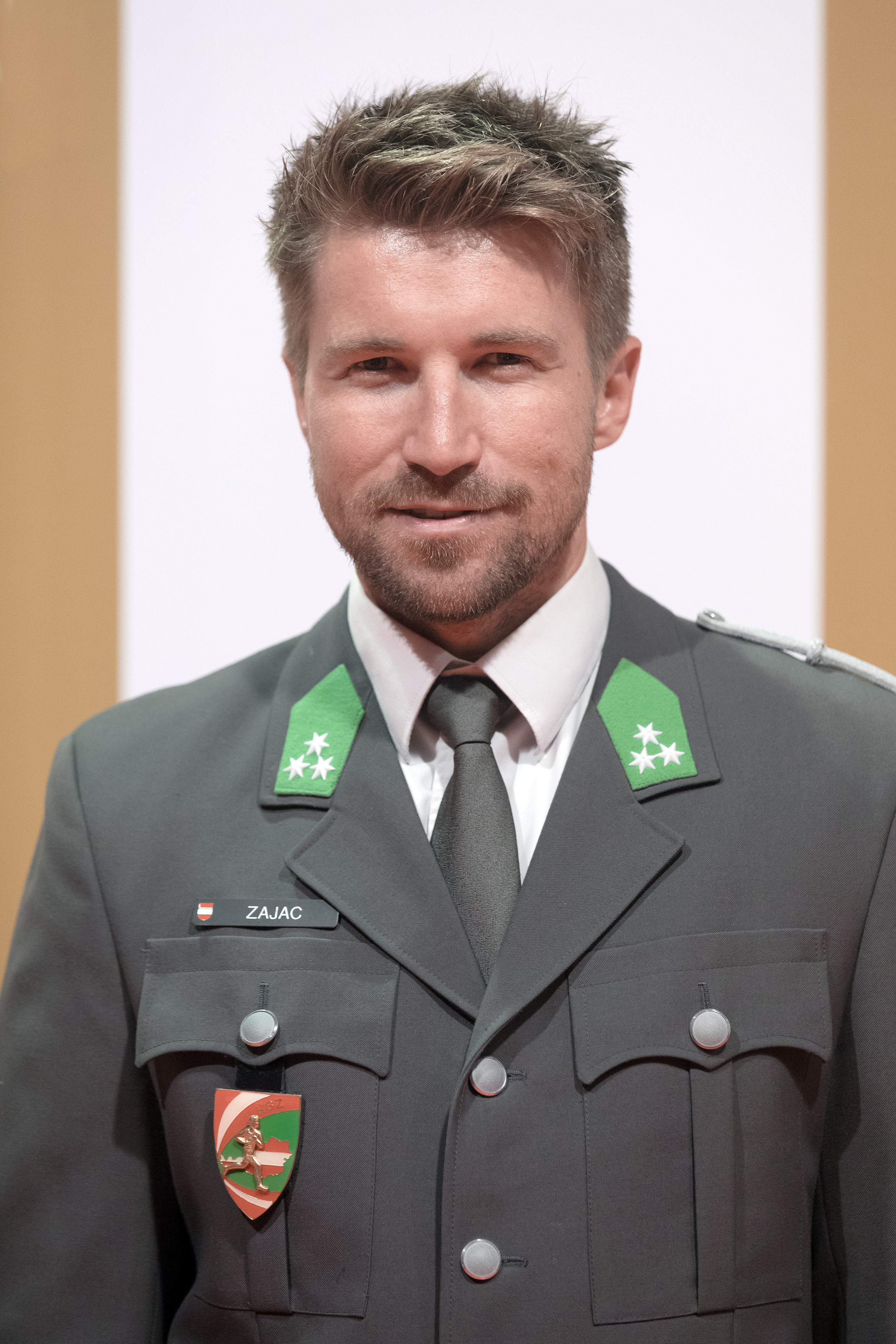 Thomas Zajac at the award show for the Austrian Sports Personalities of the Year 2017 at Marx Halle (Sankt Marx, Vienna, Austria).